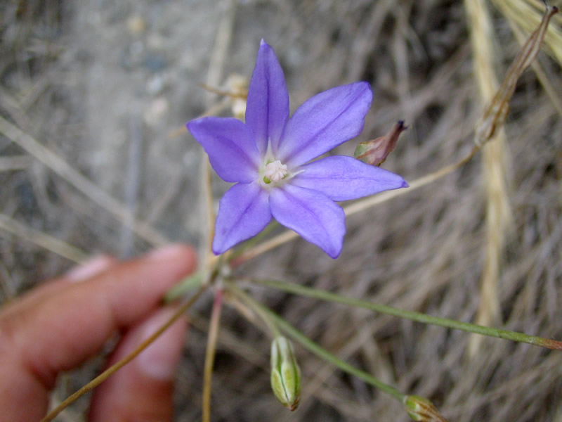 Brodiaea filifolia. US Forest Service photo.